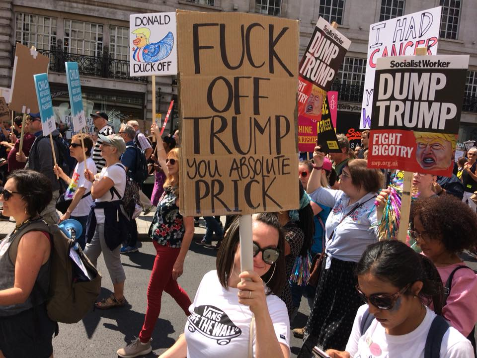 A group of protesters on the Women's March Against Trump, Regent Street, London.